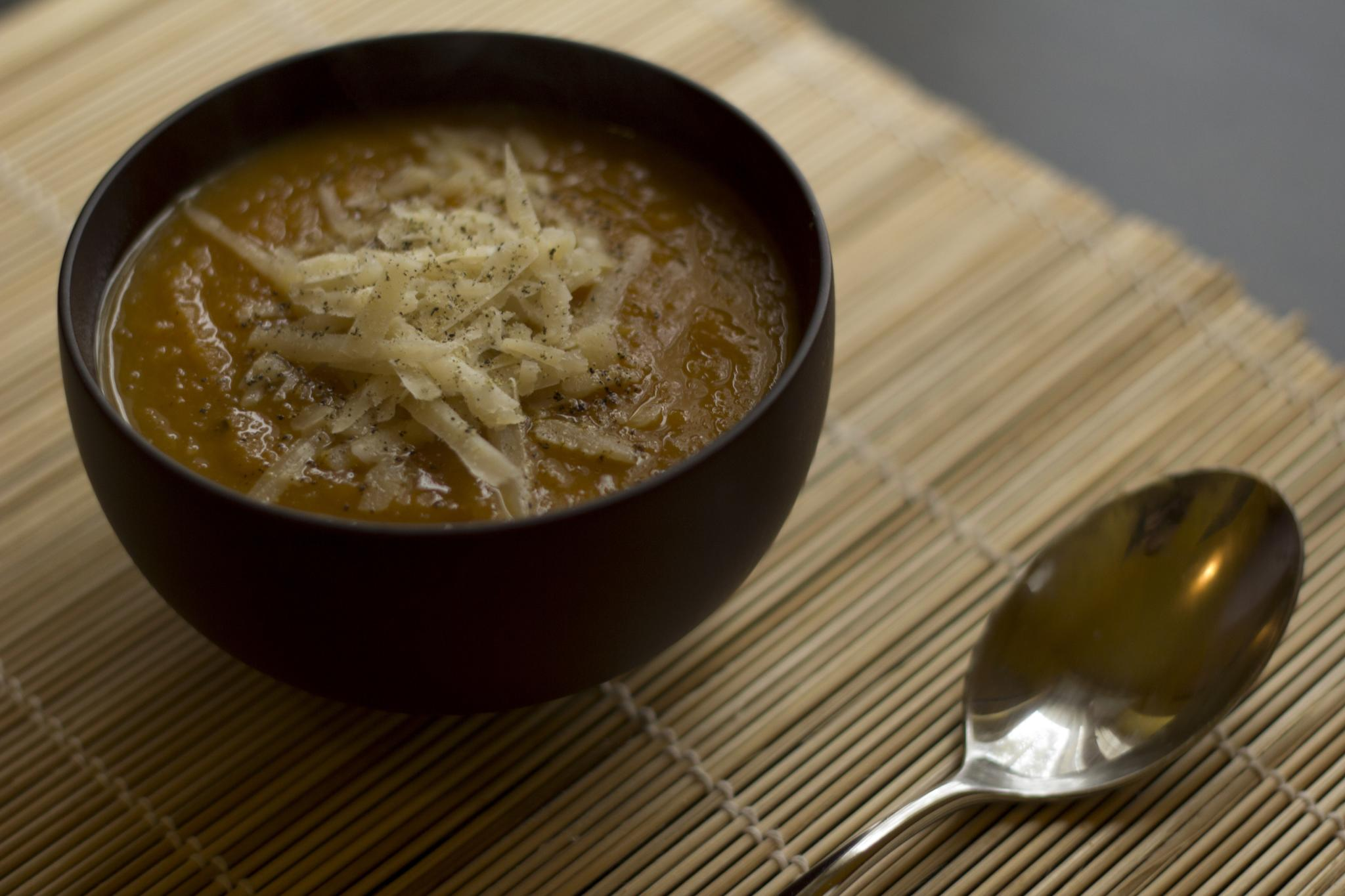 Pumpkin soup with chestnuts (Recipe in italian: )